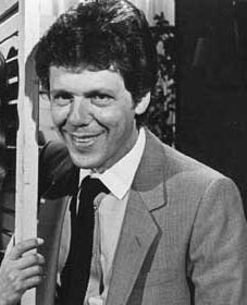 Argentine comedian Emilio Disi, photographed in the 1980s when he starred his own TV show along with ex-wife Dorys Del Valle.